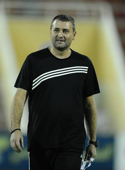 Aristică Cioabă with Saham SC in 2012 during a match against Sur Club. 4 October 2012 Sur Sports Complex Photographer email id